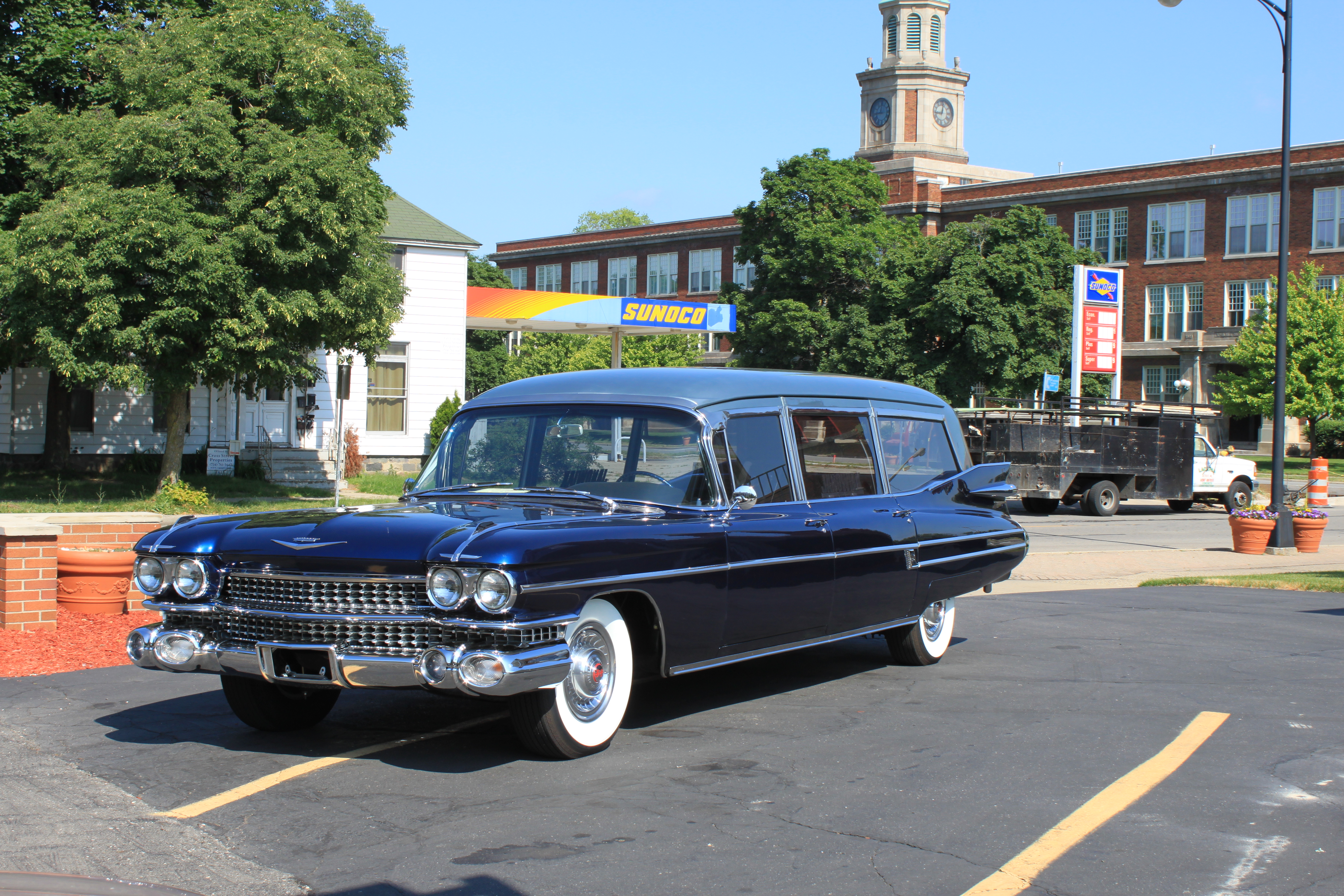 1959 Cadillac hearse, Janowiak Funeral Home, 320 North Washington, Ypsilanti, Michigan. The former Ypsilanti High School building is in the background